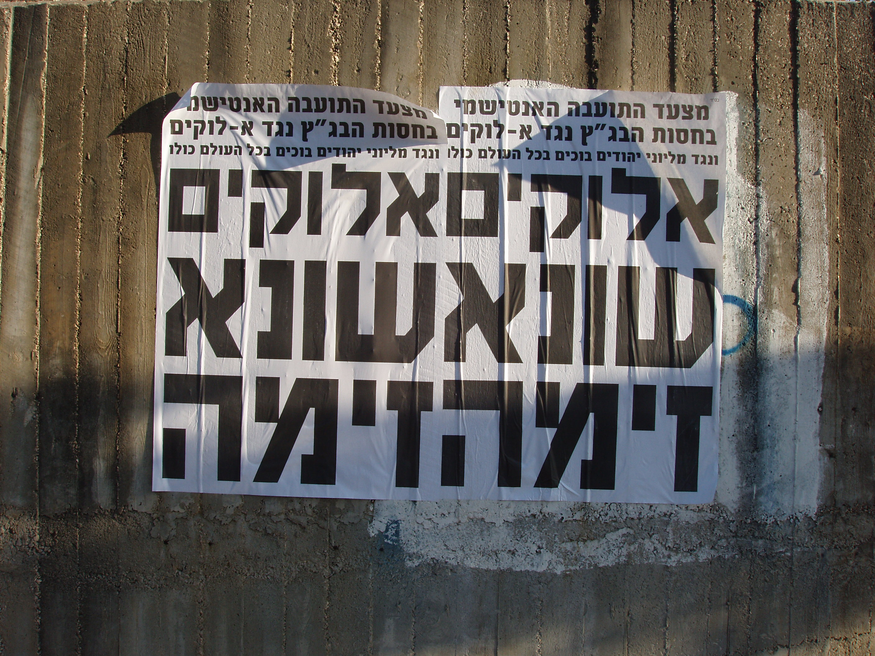 "אלוקים שונא זימה" Anti-gay posters near Tel-Aviv University.